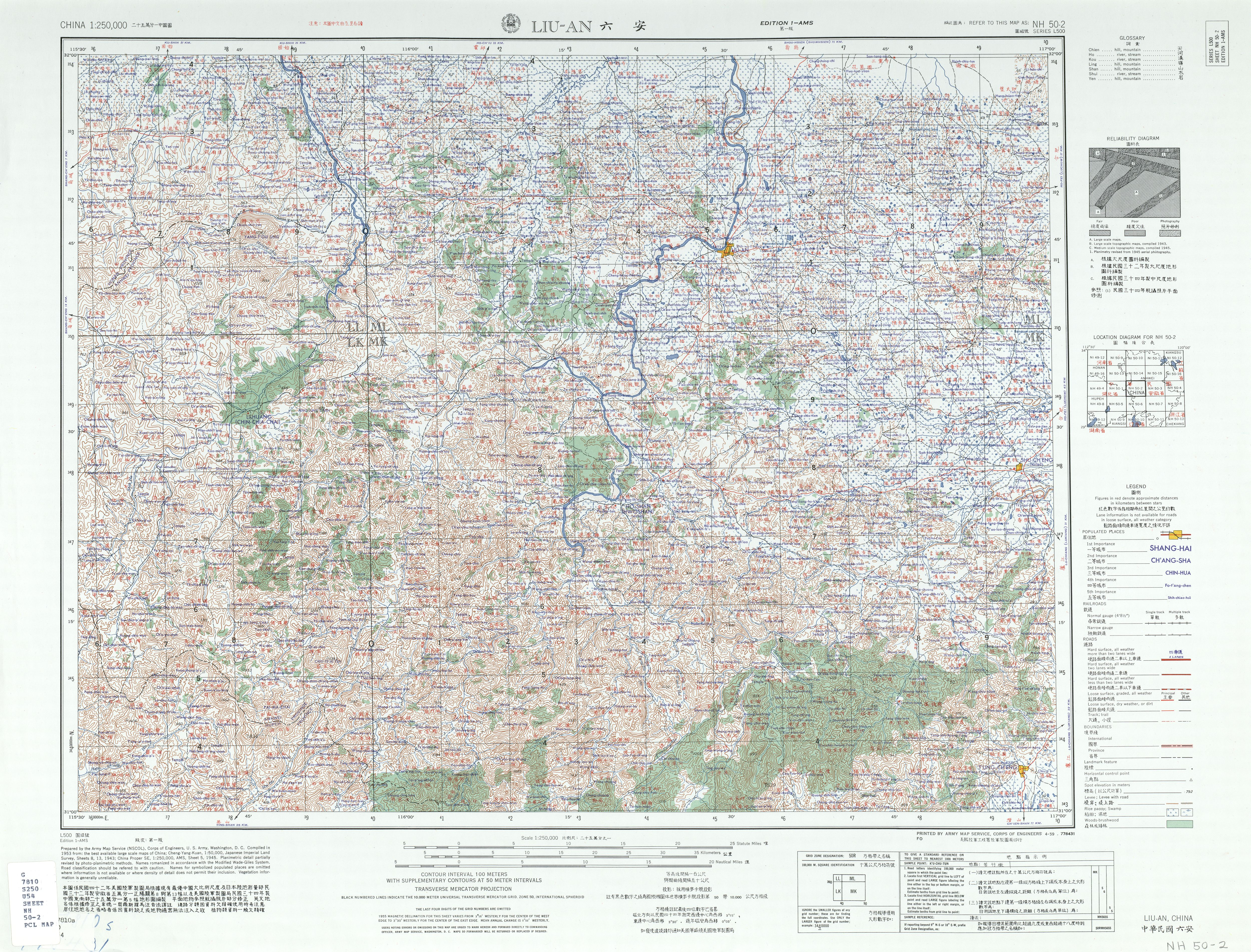 China AMS Topographic Maps series